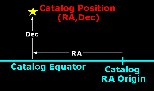 Star position in ICRS given by Right Ascension and Declination